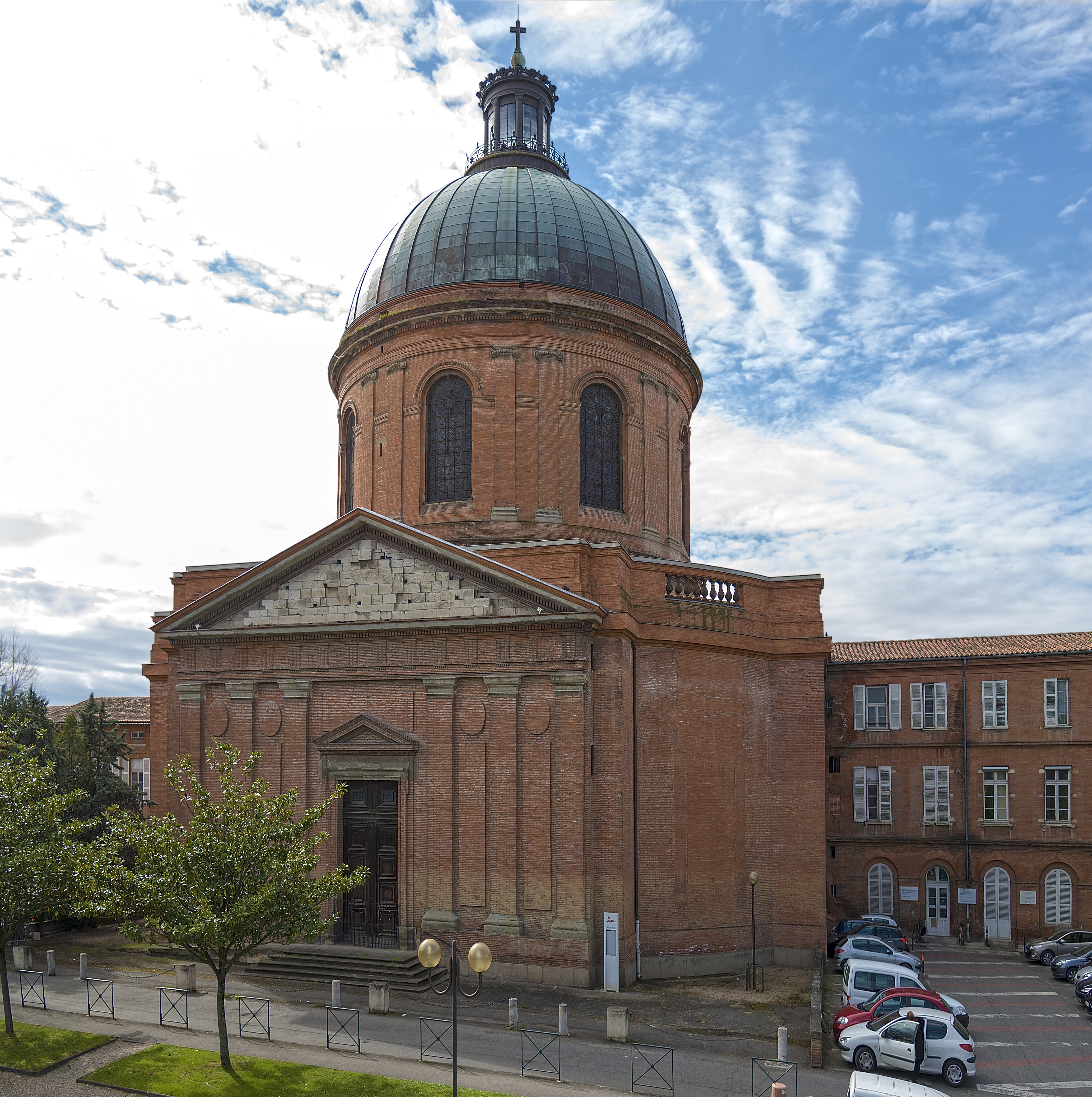 Chapel Saint-Joseph de la Grave, 1758 by Gaspard de Maniban.